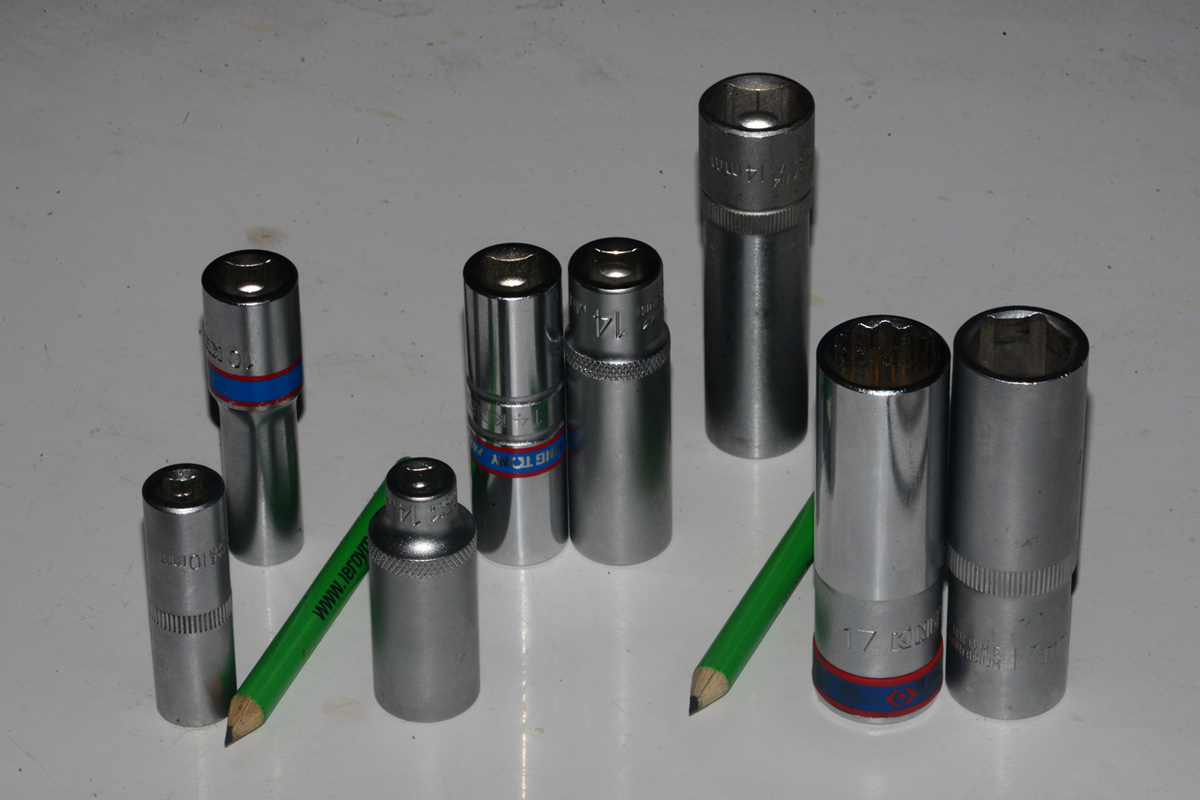 Deep sockets: 10 mm for 1/4" and 3/8" drive, 14 mm for 1/4", 3/8" (12-faced and 6-faced) and 1/2", 17 mm for 1/2" (12-faced and 6-faced)